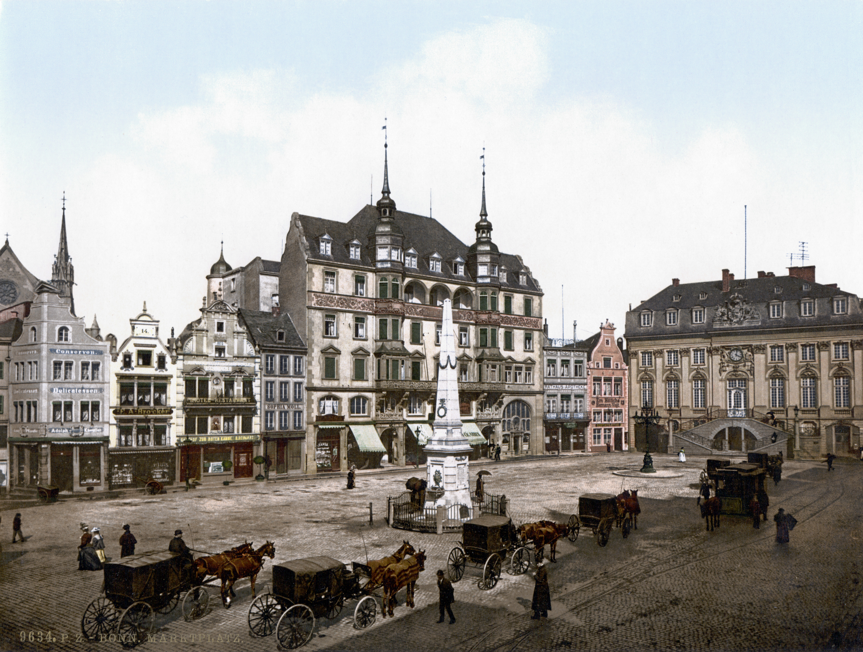 Town hall of Bonn, Germany, about 1900